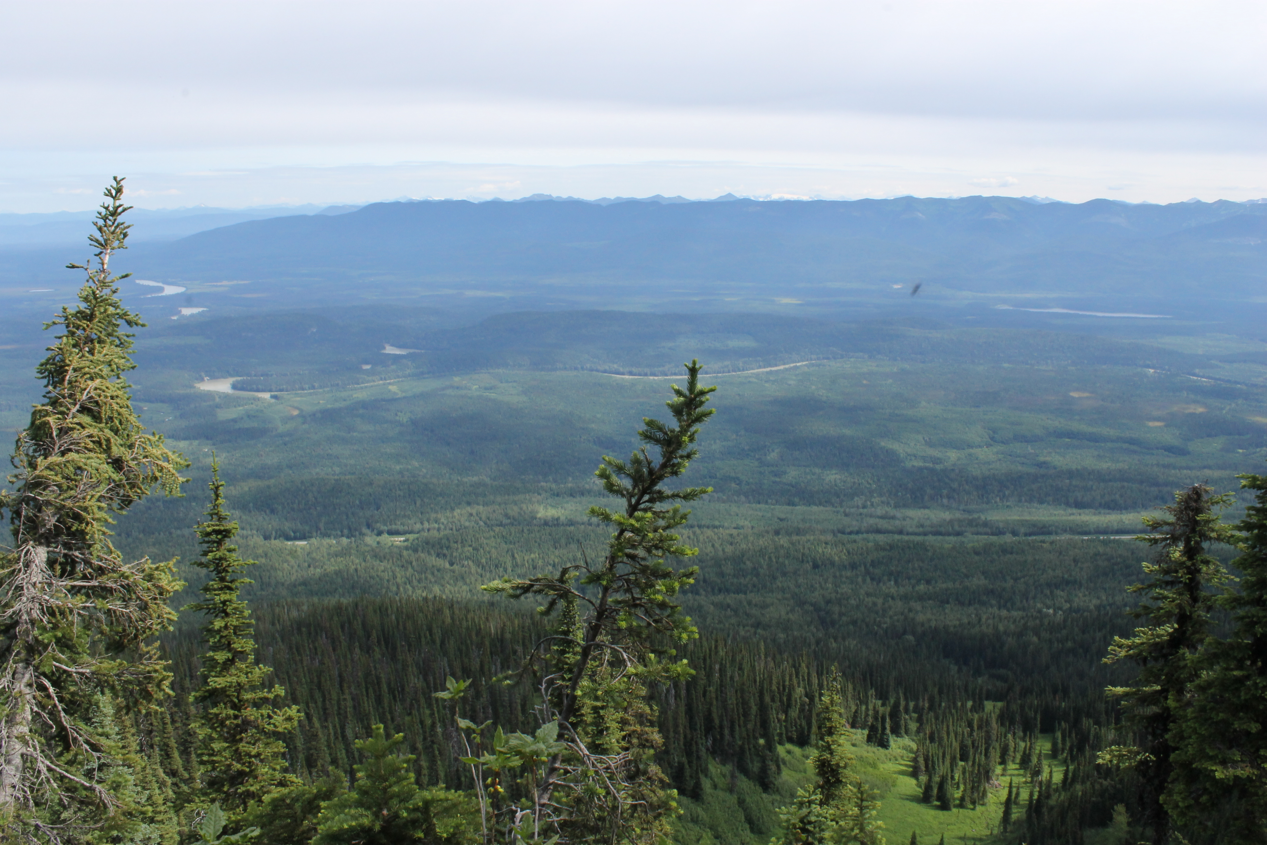 View from the top of Sugarbowl Mountain, overlooking the Fraser River Valley in Sugarbowl - Grizzly Den Provincial Park & Protected Area